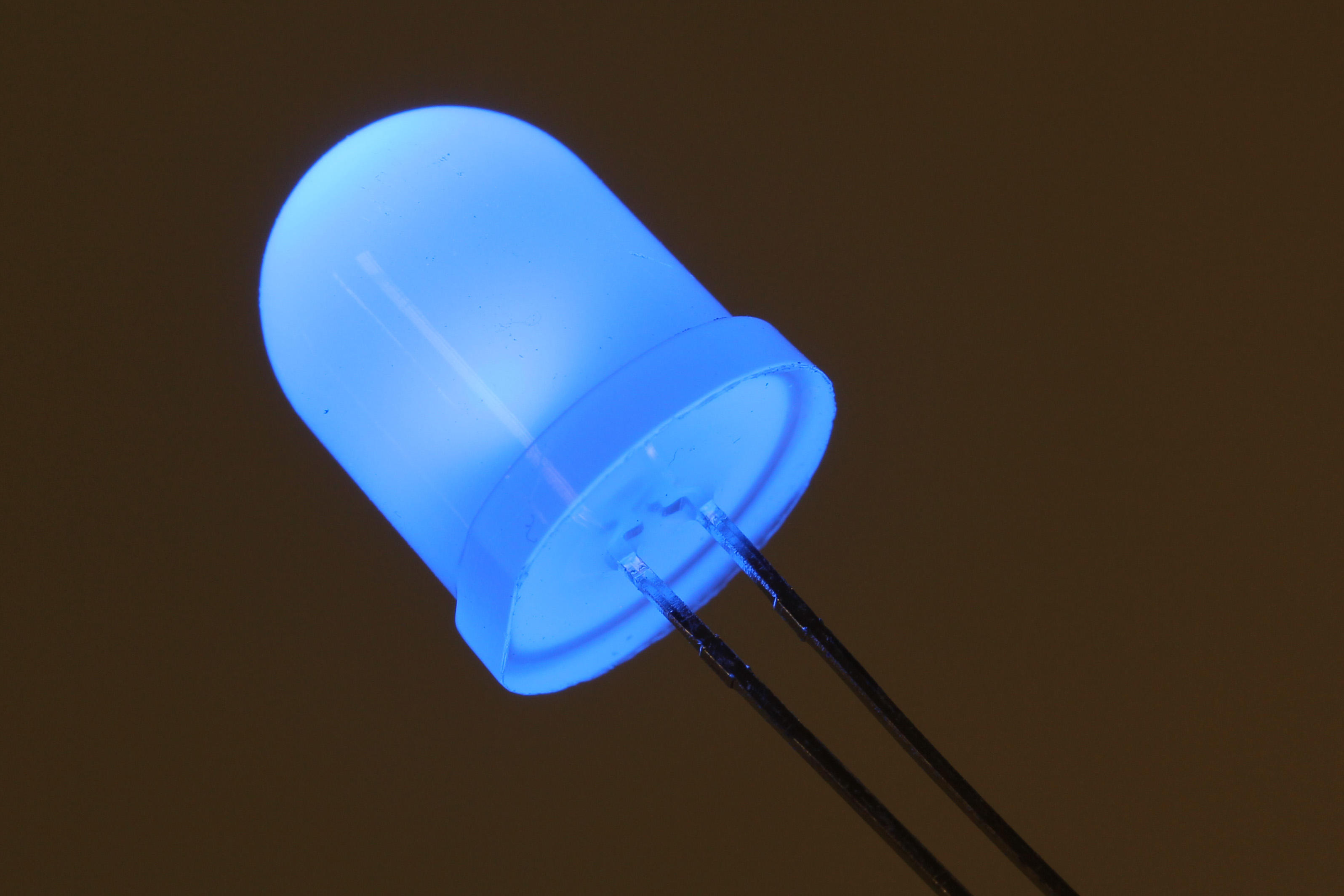 10 mm Frosted Blue LED (on).